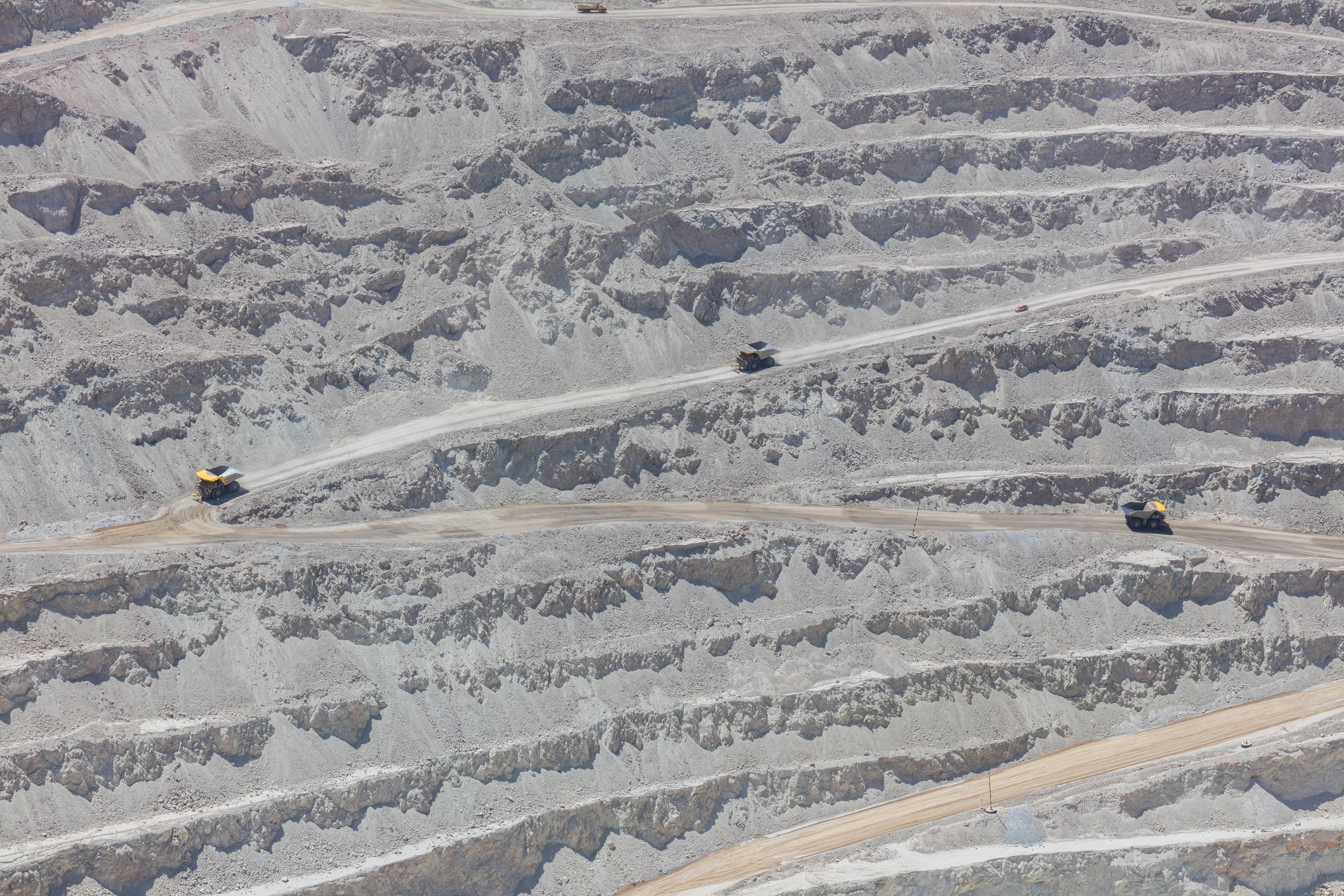 Komatsu haul trucks, Chuquicamata Mine, Calama, Chile